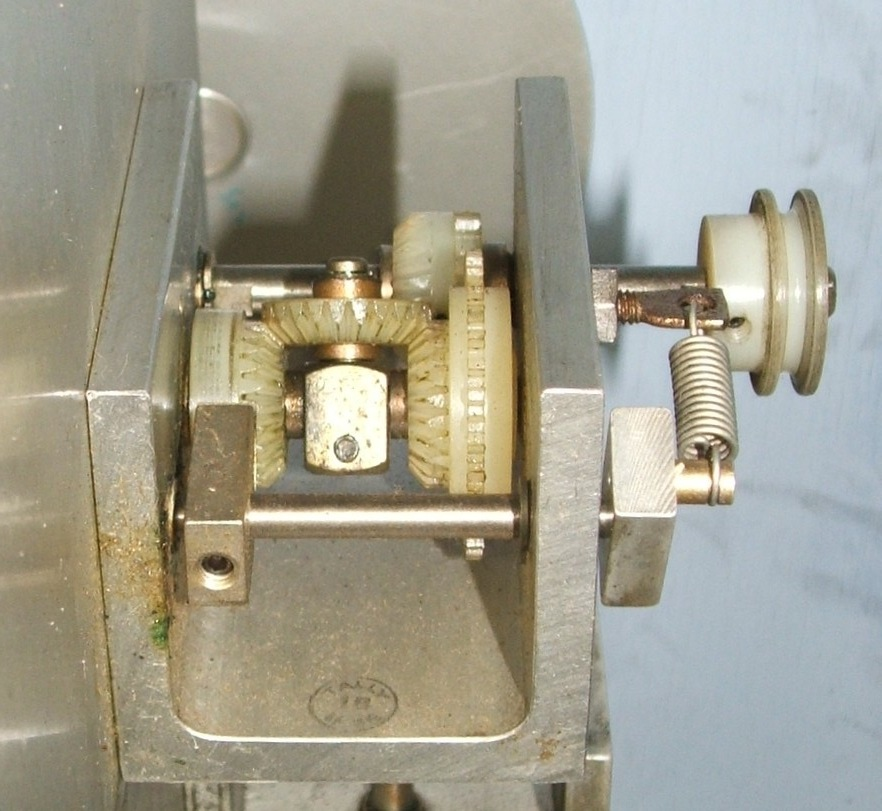 differential used to control the take-up reel of a paper tape reader made by Tally circa 1962. A belt and pulley syatem powers the rear shaft at constant speed. This turns the right bevel gear, which spins freely on the middle or output shaft. The axle of the single planet gear is locked to the output shaft. The left bevel gear also spins freely on the driven shaft, unless it is stopped by a brake shoe attached to the front shaft. When there is slack in the tape, the brake is engaged, stopping the left bevel gear, and causing the planet gear to drive the output shaft, taking up the slack in the tape. When there is no slack, the brake is released, and the left bevel gear rotates freely, allowing the planet gear to spin and removing the torque from the output shaft.